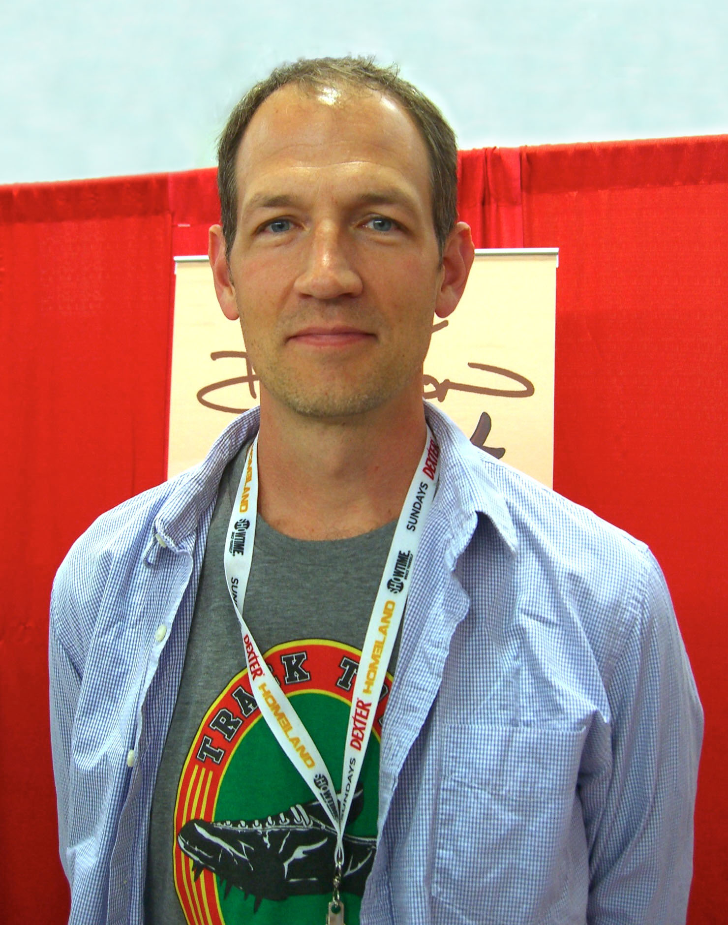 Comics creator Terry Dodson on Day 2 of the 2012 New York Comic Con, Friday October 12, 2012 at the Jacob K. Javits Convention Center in Manhattan. This photo was created by Luigi Novi. It is not in the public domain, and use of this file outside of the licensing terms is a copyright violation.